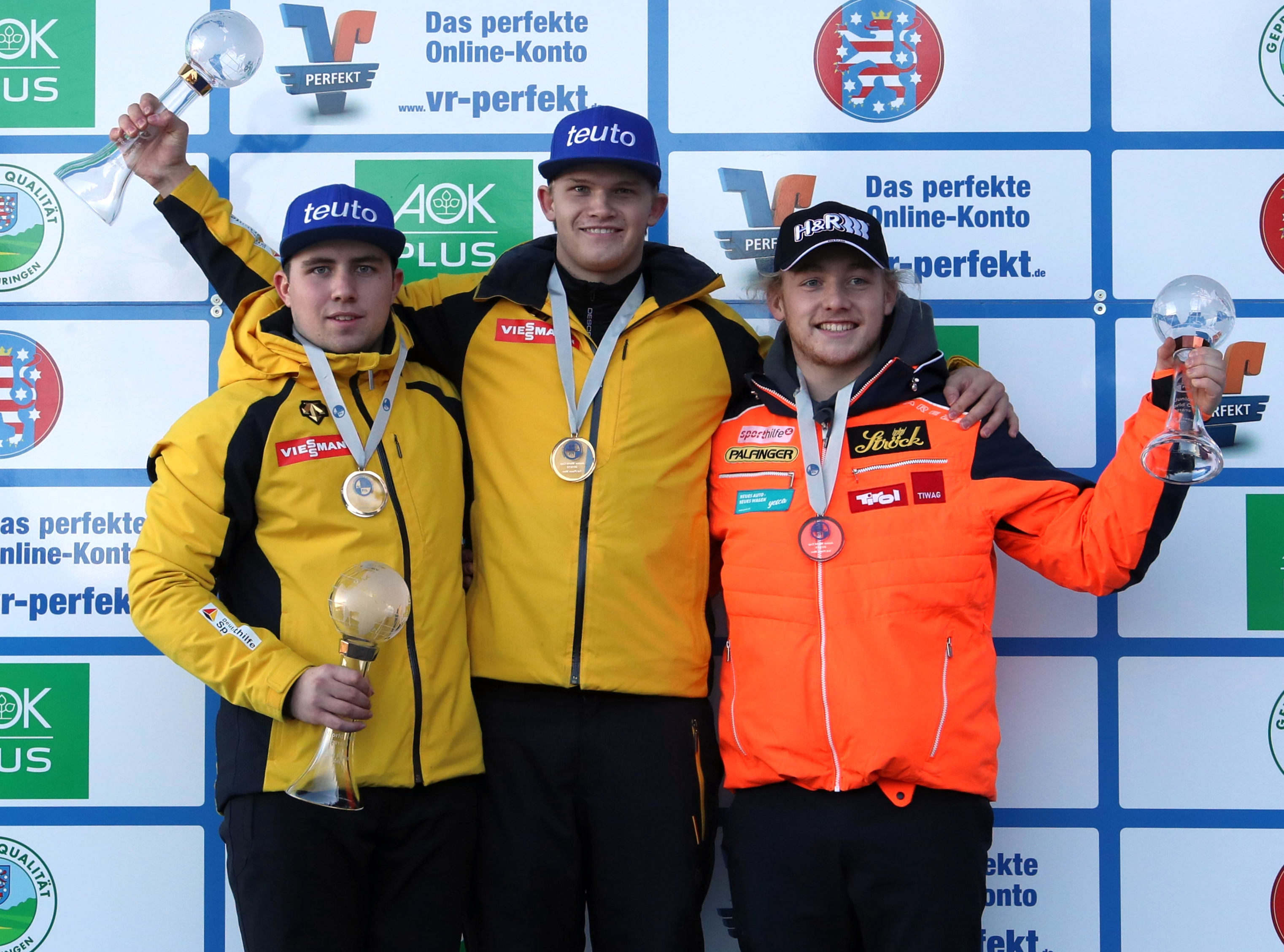 Saturdays Victory Ceremonies at the 2018/19 Juniors and Youth A Luge World Cup in Oberhof